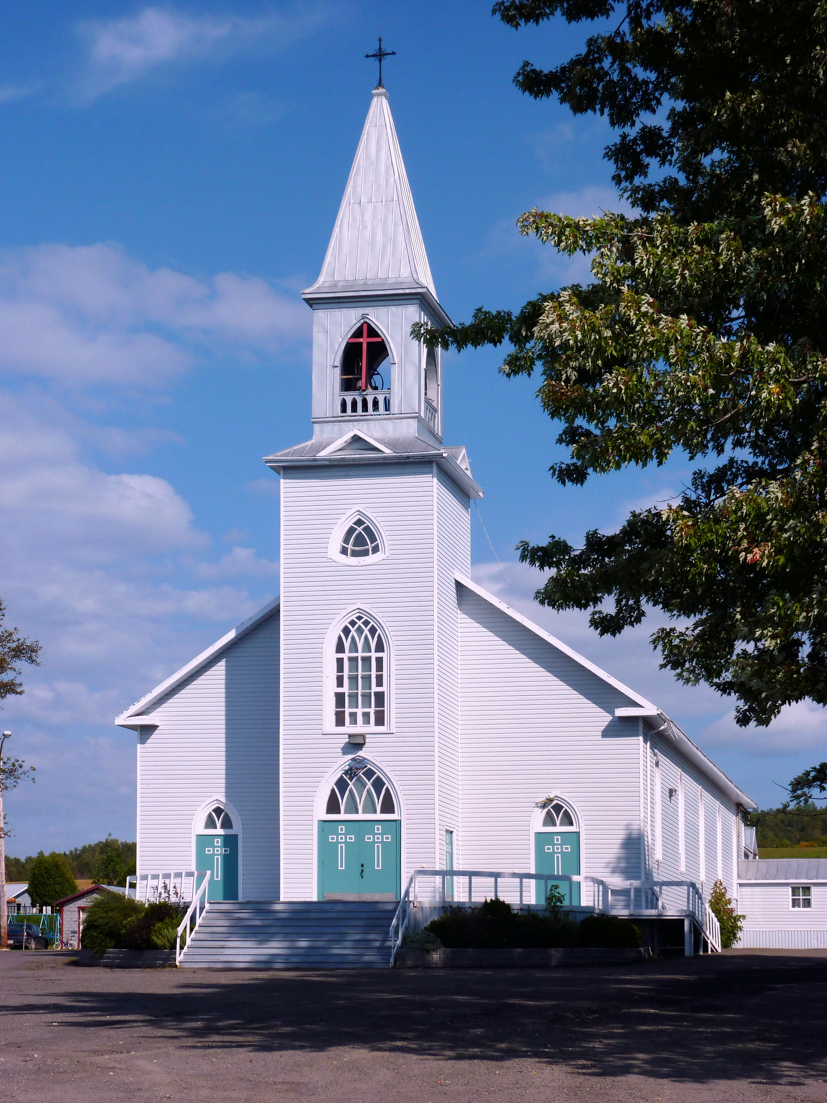 Church of Lac-des-Aigles, Quebec